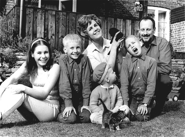 Eva, Sven, Gullan, Dan, Jörgen and Valter Bornemark